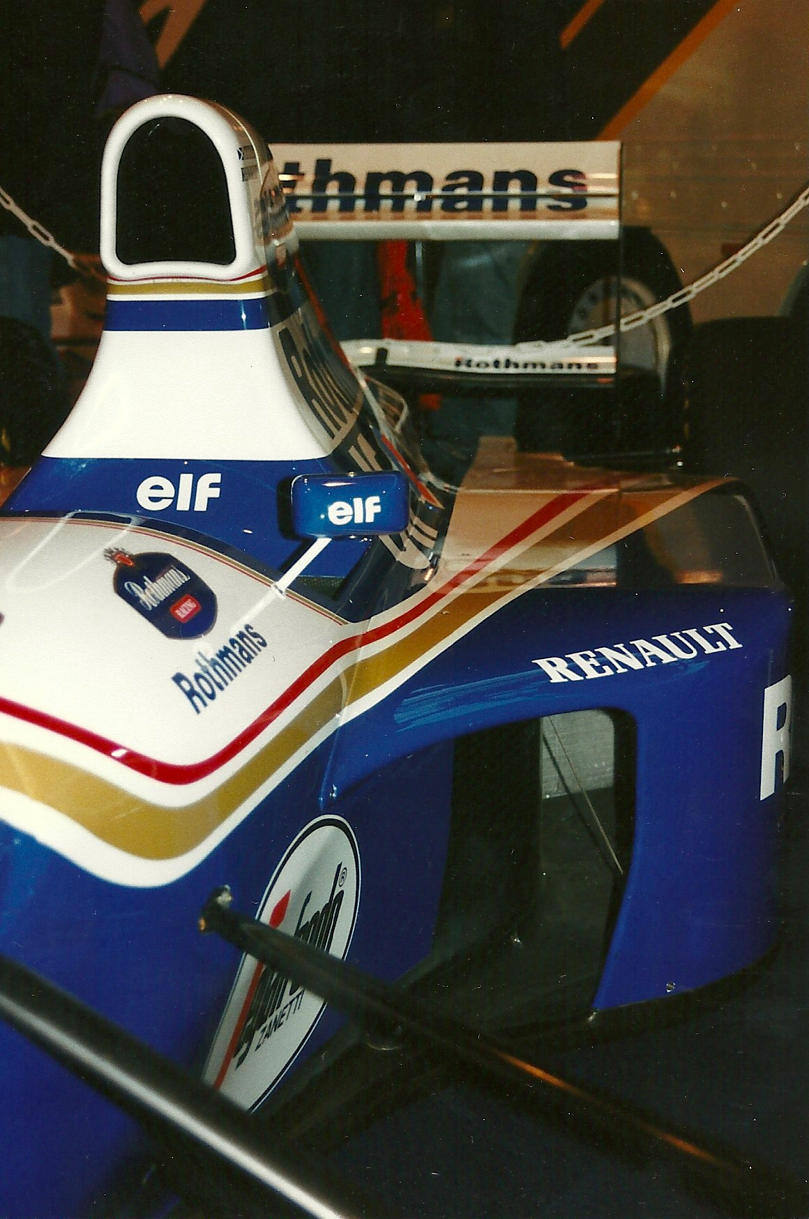 Willams FW16's radiators